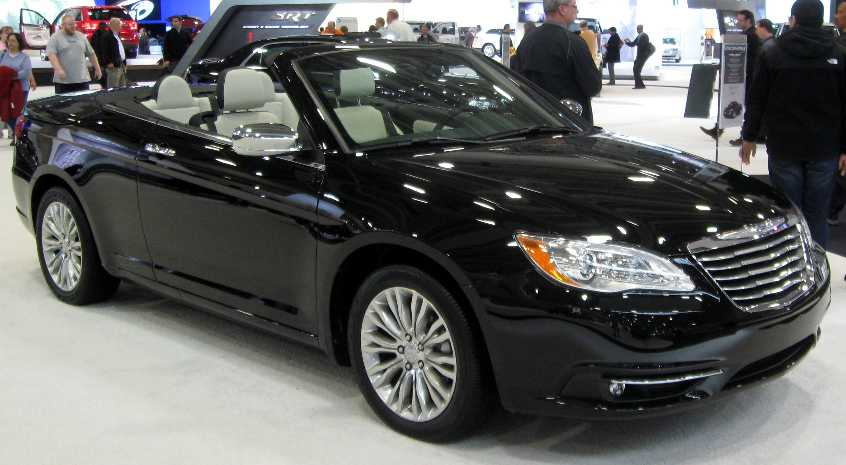 2012 Chrysler 200 photographed in Washington, D.C., USA.